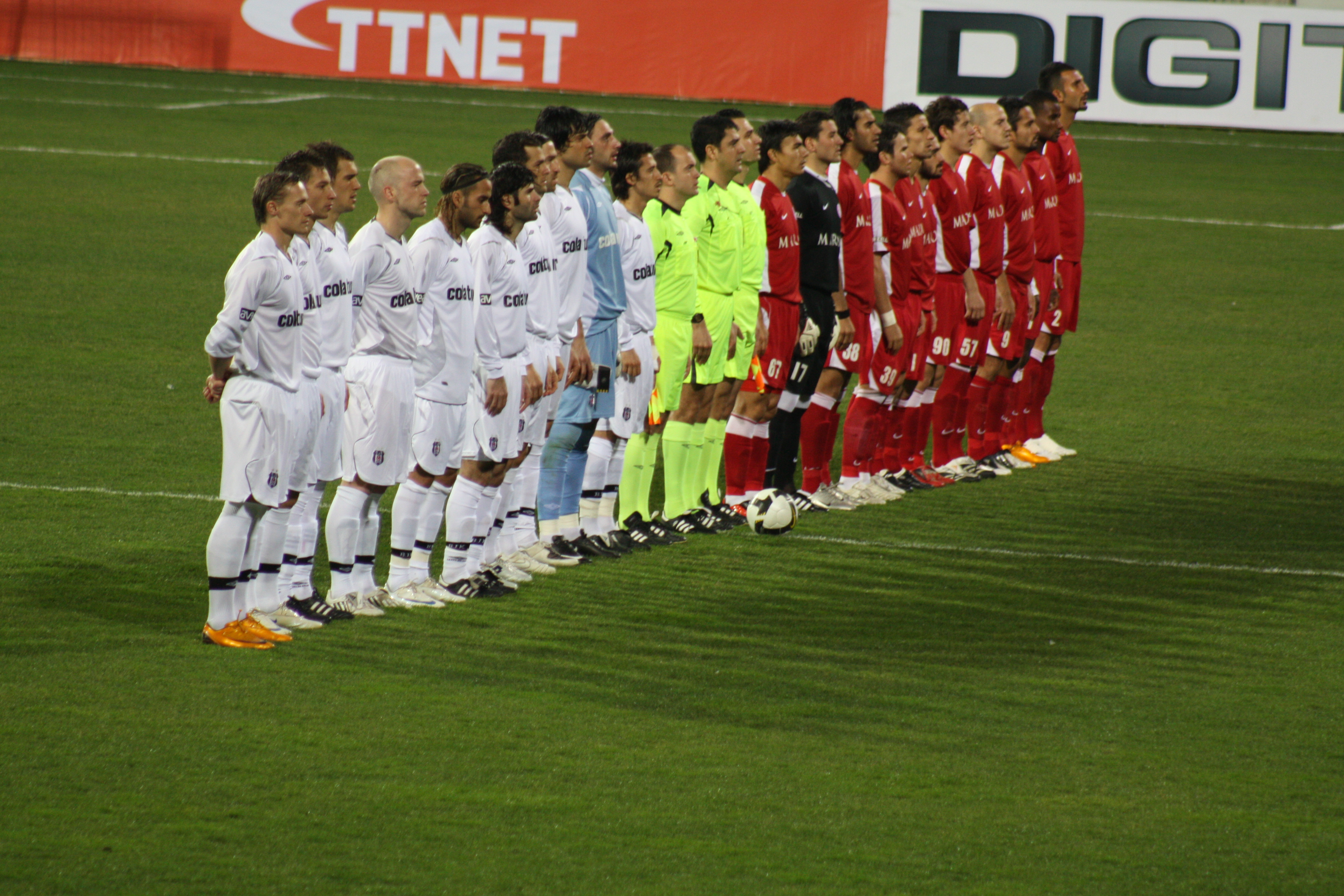 Beşiktaş-Antalyaspor pre-match ceremonyTürkçe: Beşiktaş-Antalyaspor maçı öncesi yapılan seramoni